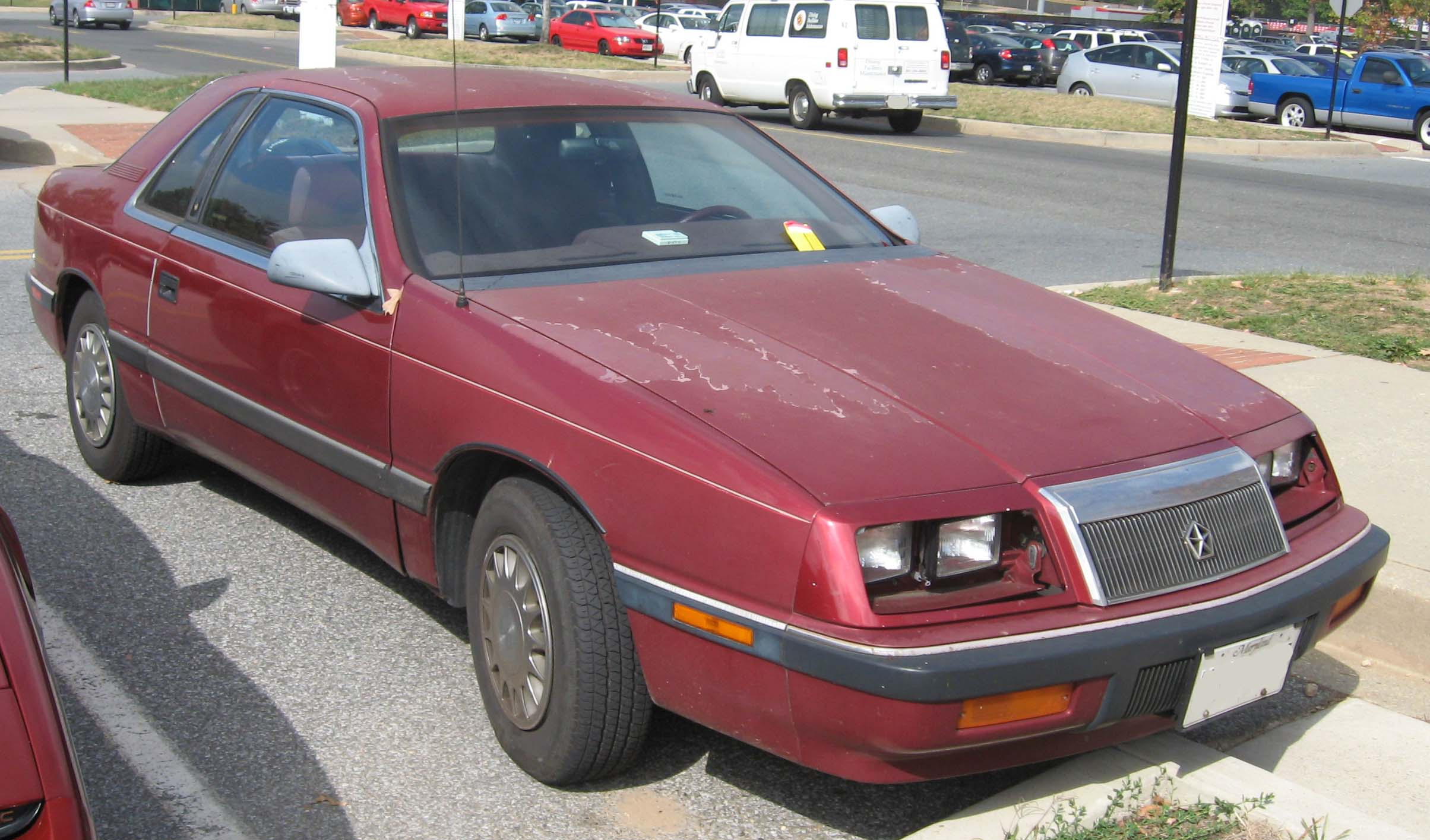 1987-1992 Chrysler LeBaron photographed in College Park, Maryland, USA.